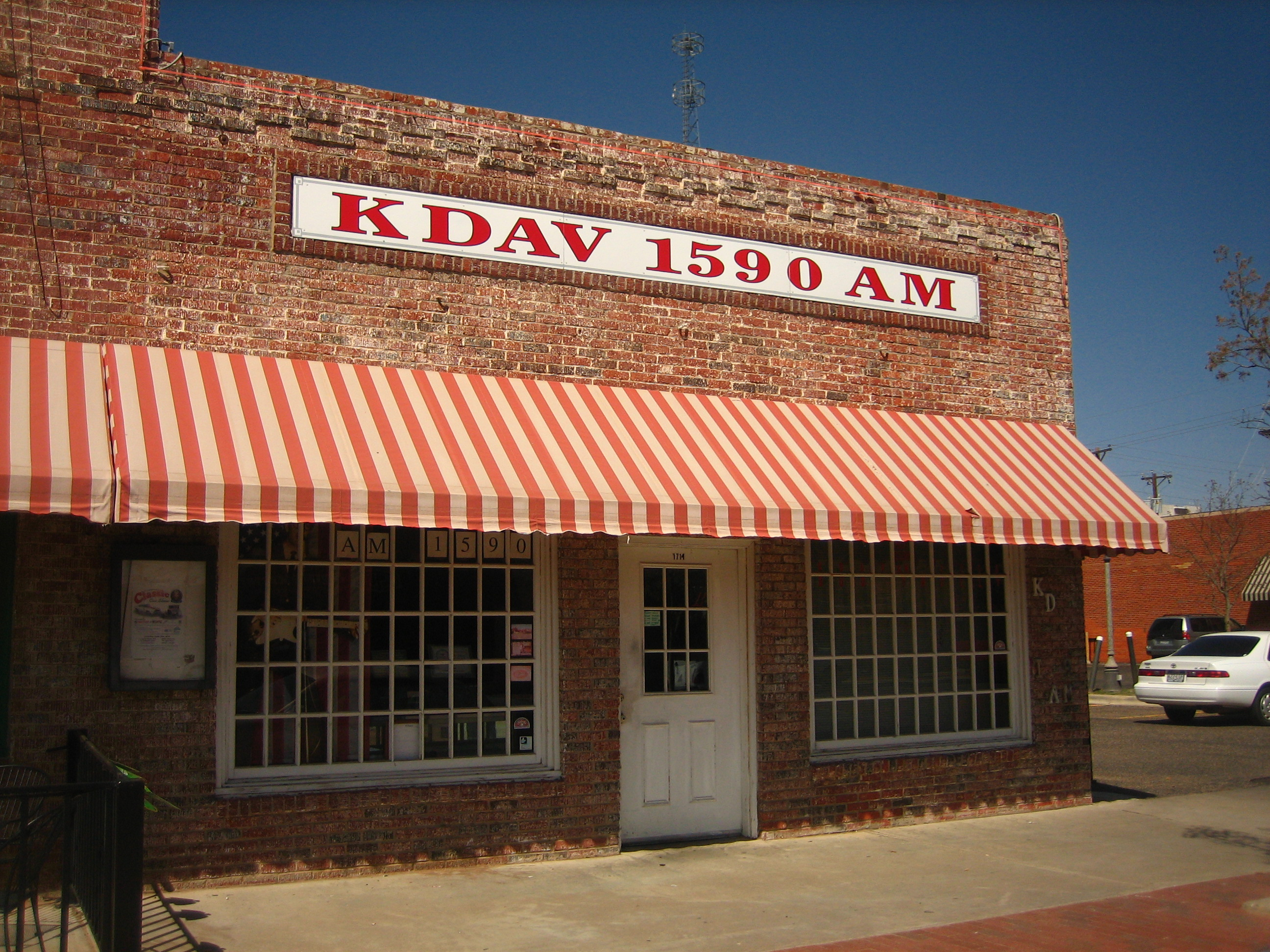 I took photo on April 3, 2009.Billy Hathorn (talk) 04:23, 10 April 2009 (UTC)